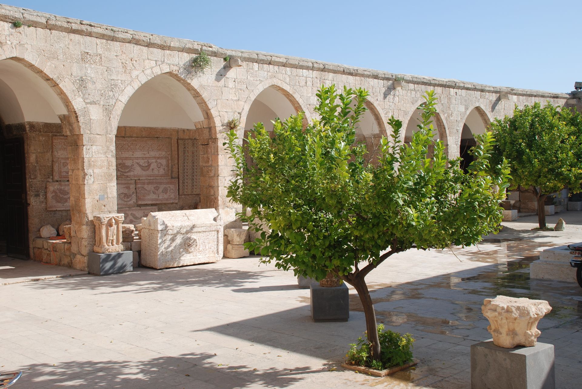 Maarat an-Numan, Syria, mosaic museum